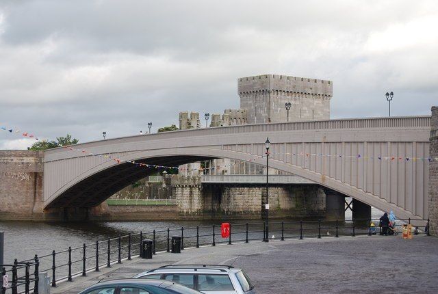 Bridge over the River Conwy Built in 1958, this bridge carries the A547.